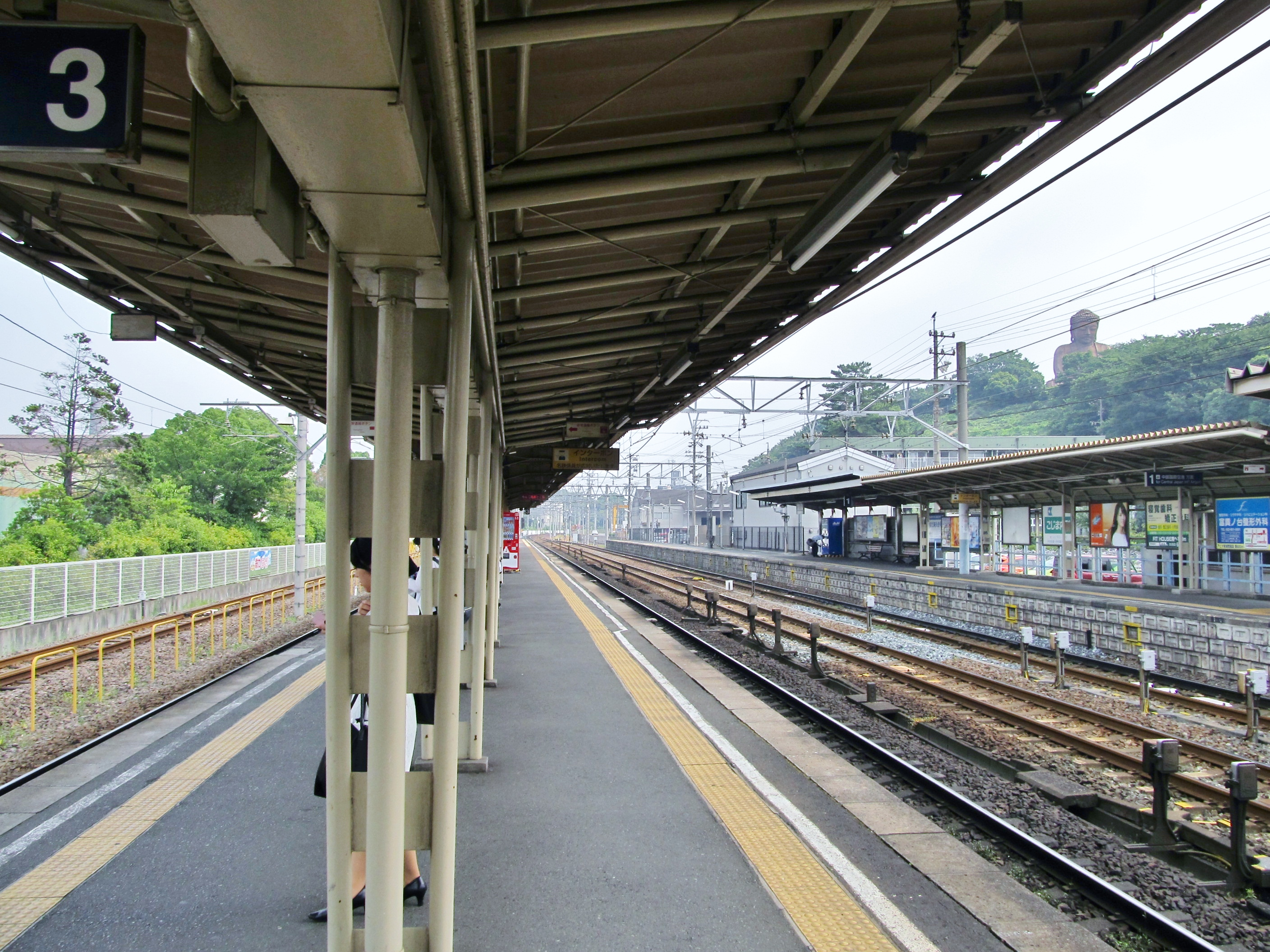 Nagoya Railroad Tokoname Line Shūrakuen Station Platform